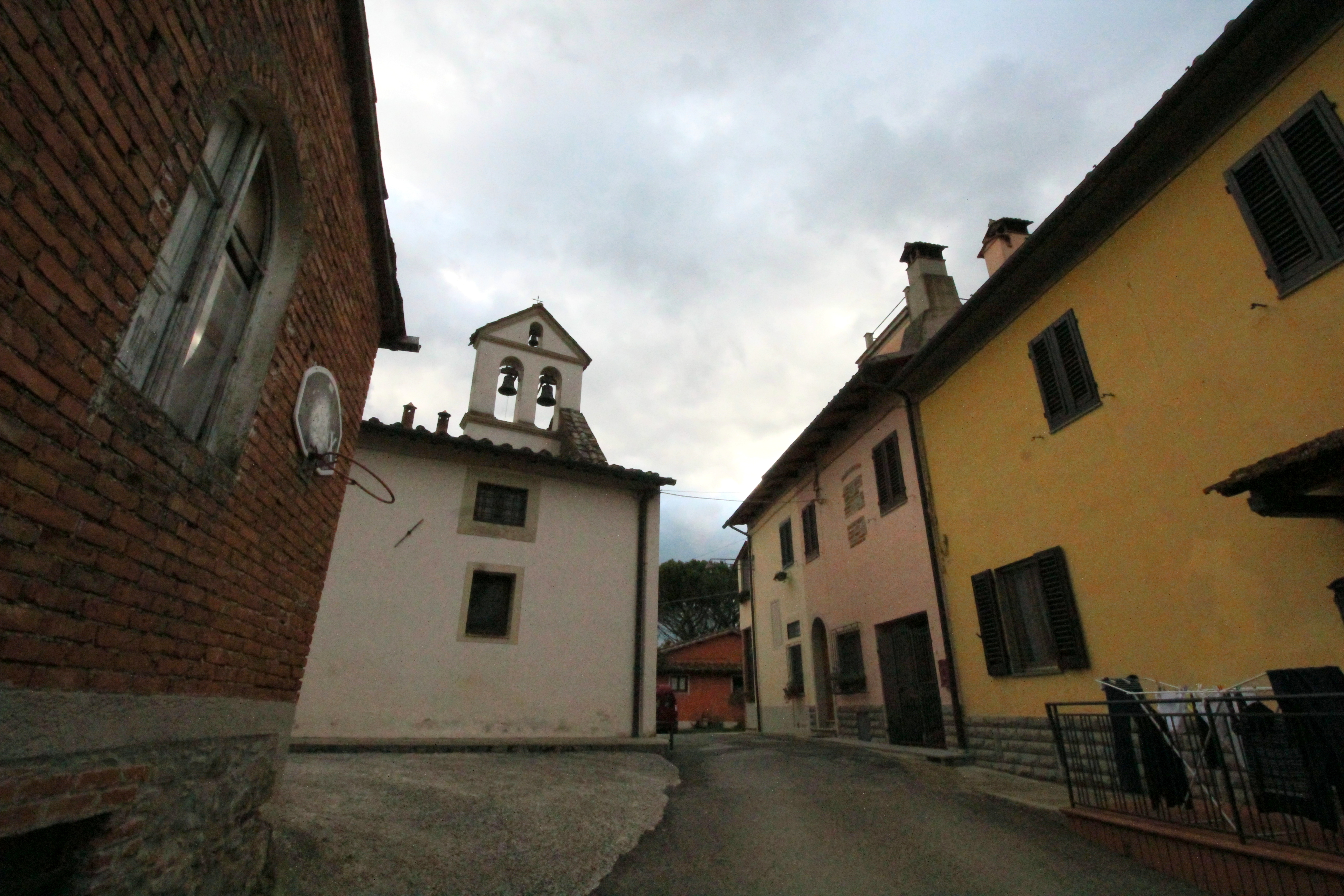 Castiglione Ubertini, hamlet of Terranuova Bracciolini, Province of Arezzo, Tuscany, Italy